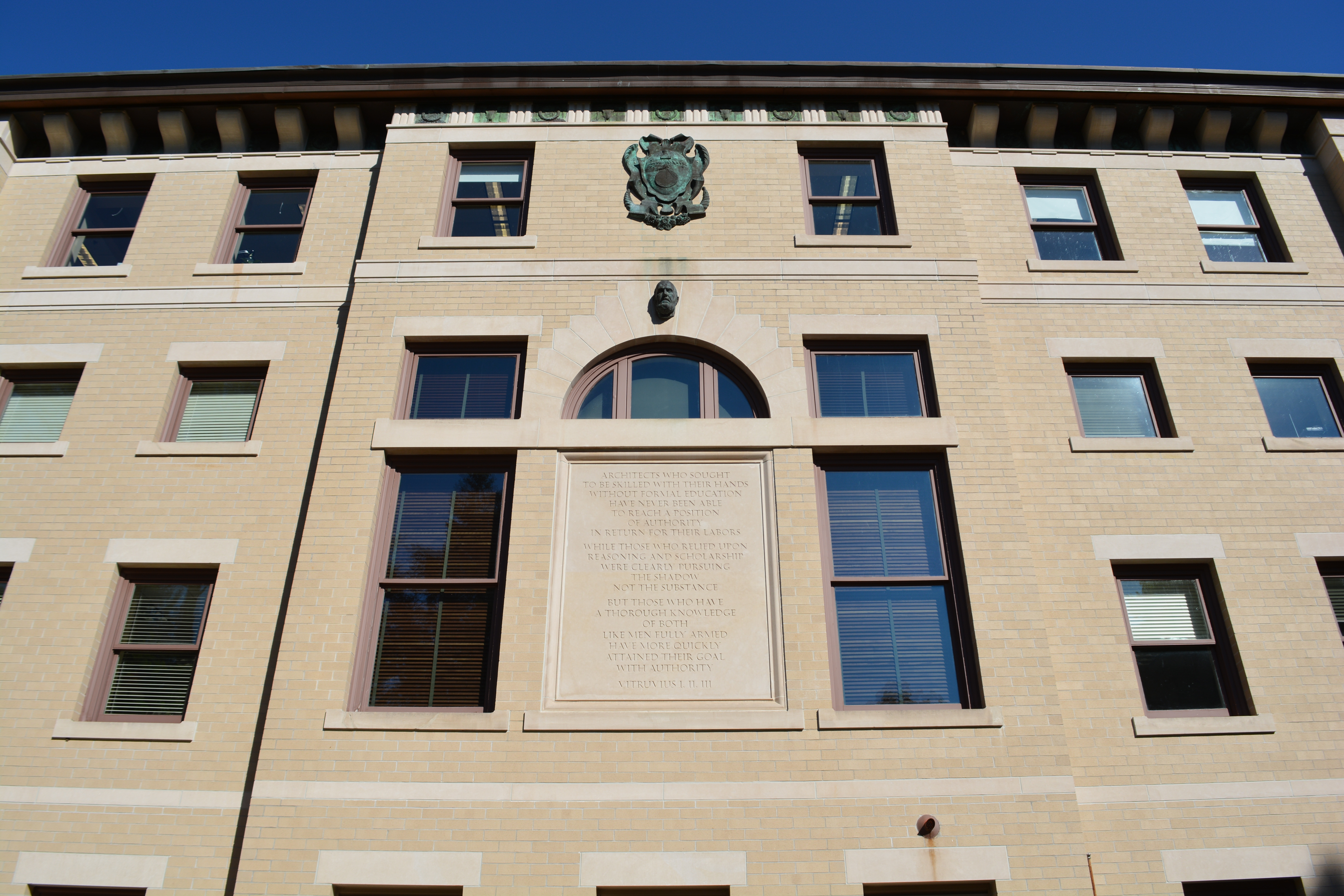 Campus of the University of Notre Dame